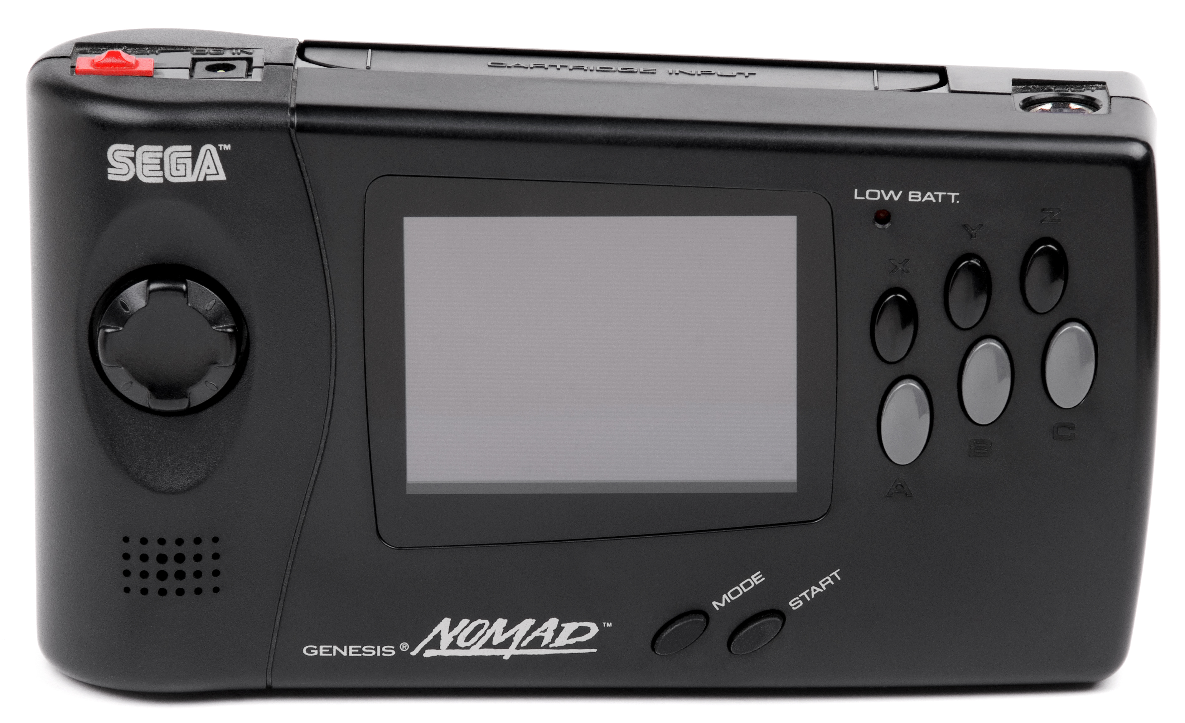 A Sega Nomad hand held video game console.